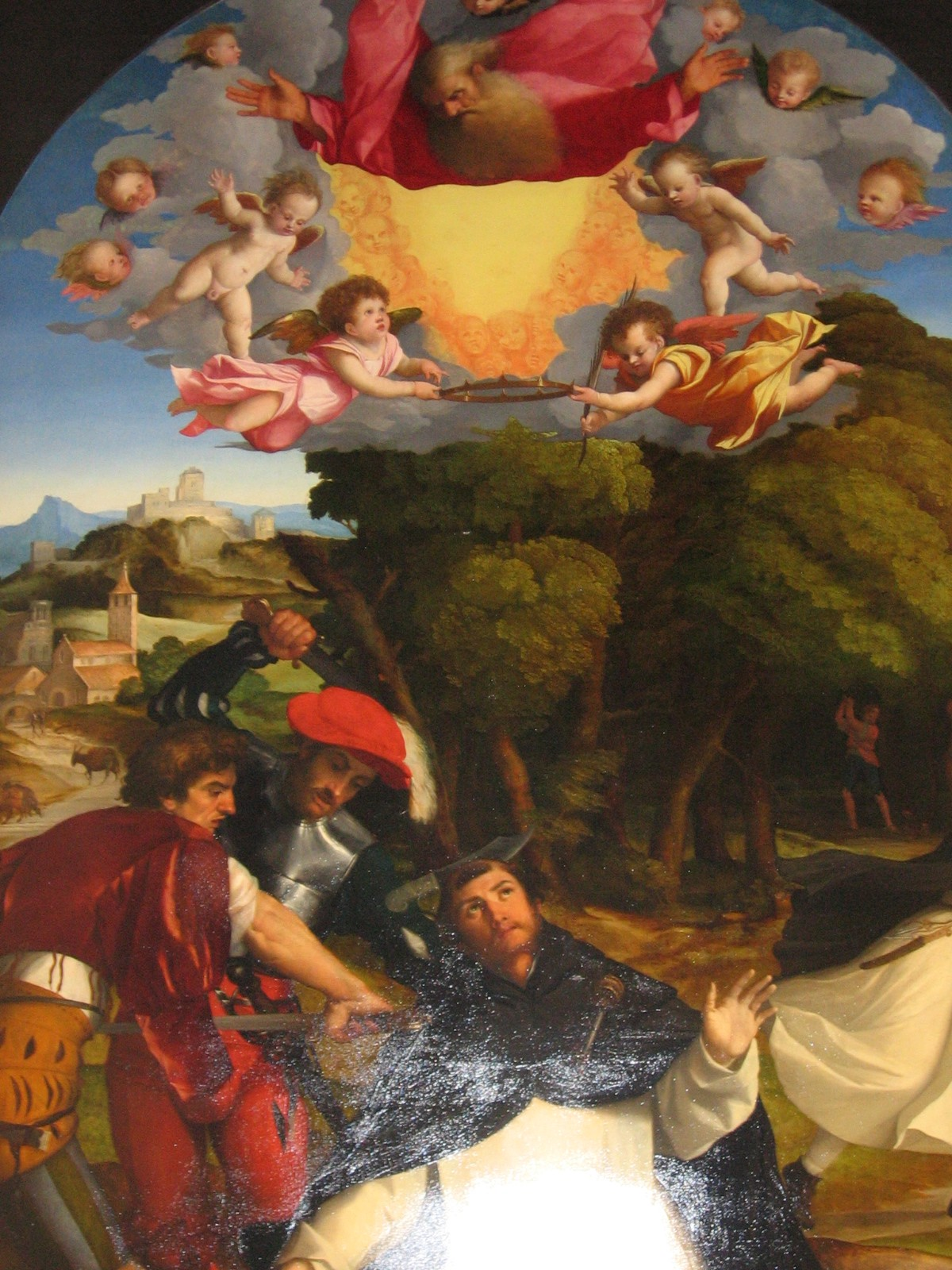 The Martyrium of Saint Peterlabel QS:Lit,"Il martirio di San Pietro" label QS:Len,"The Martyrium of Saint Peter"